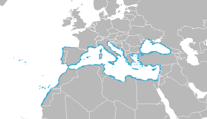 Distribution map of Hexaplex trunculus.